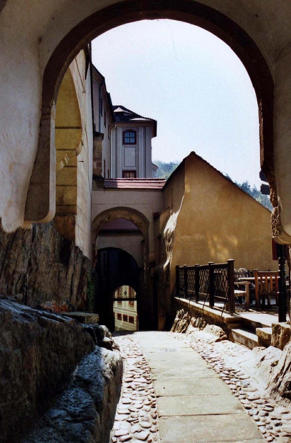 inside Schloss Weesenstein (Weesenstein Castle) in Weesenstein.